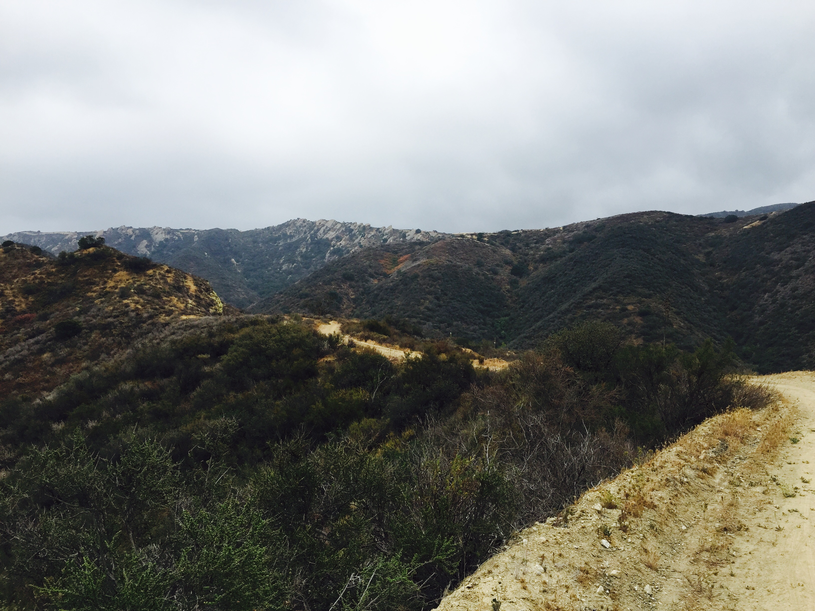 A trail by the entrance of Challenger Park, Simi Valley.